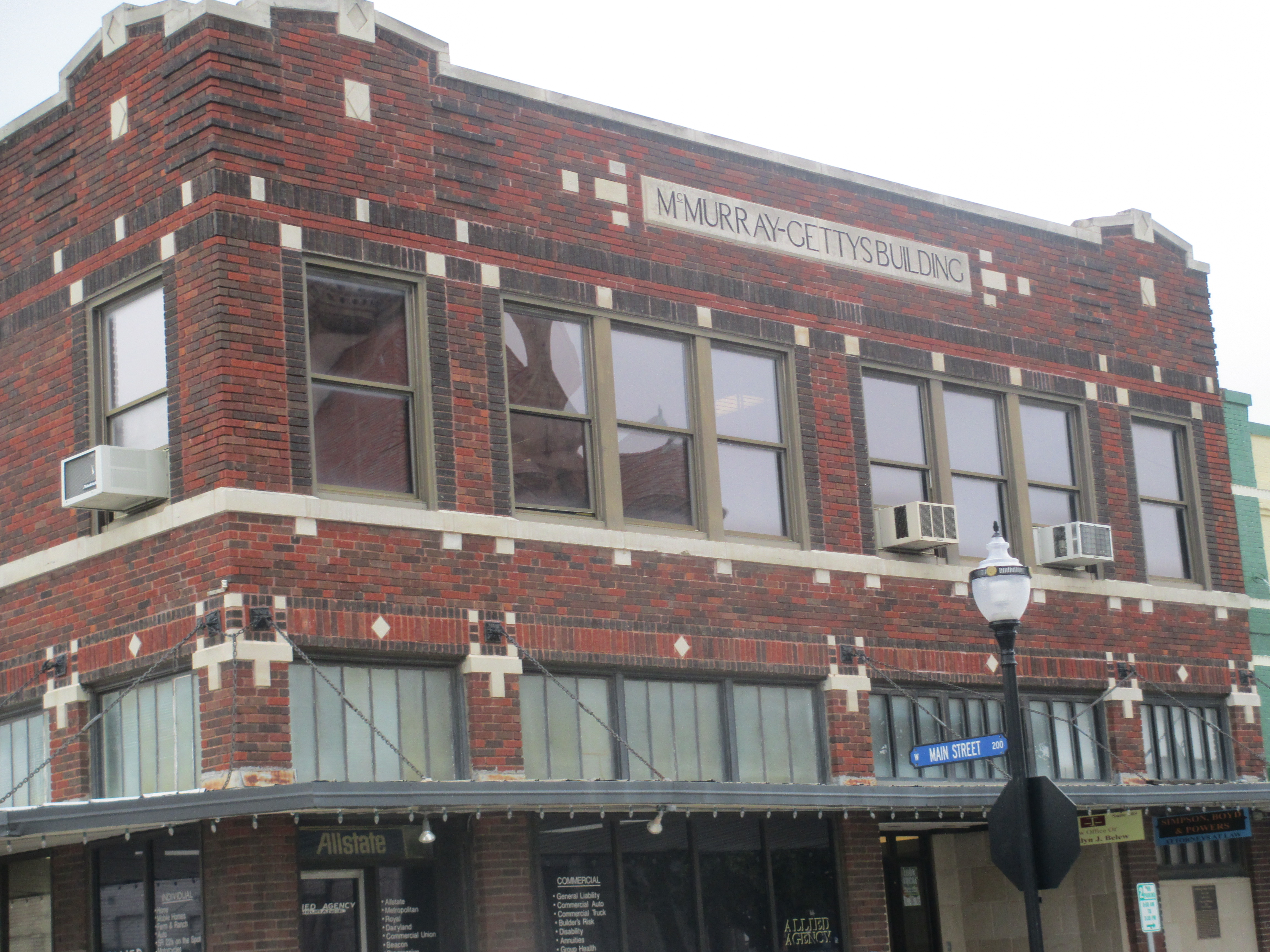 I took photo of McMurray-Gettys Building in Decatur, TX, with Canon camera, April 4, 2013. Billy Hathorn (talk) 00:39, 12 April 2013 (UTC)